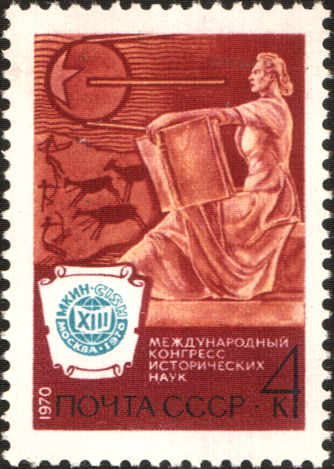 USSR stamp: Sculpture Science (after Vera Mukhina), Petroglyphs, Sputnik and Congress Emblem. Series: 13th International Congress of Historal Sciences in Moscow (1970.08.16-23)